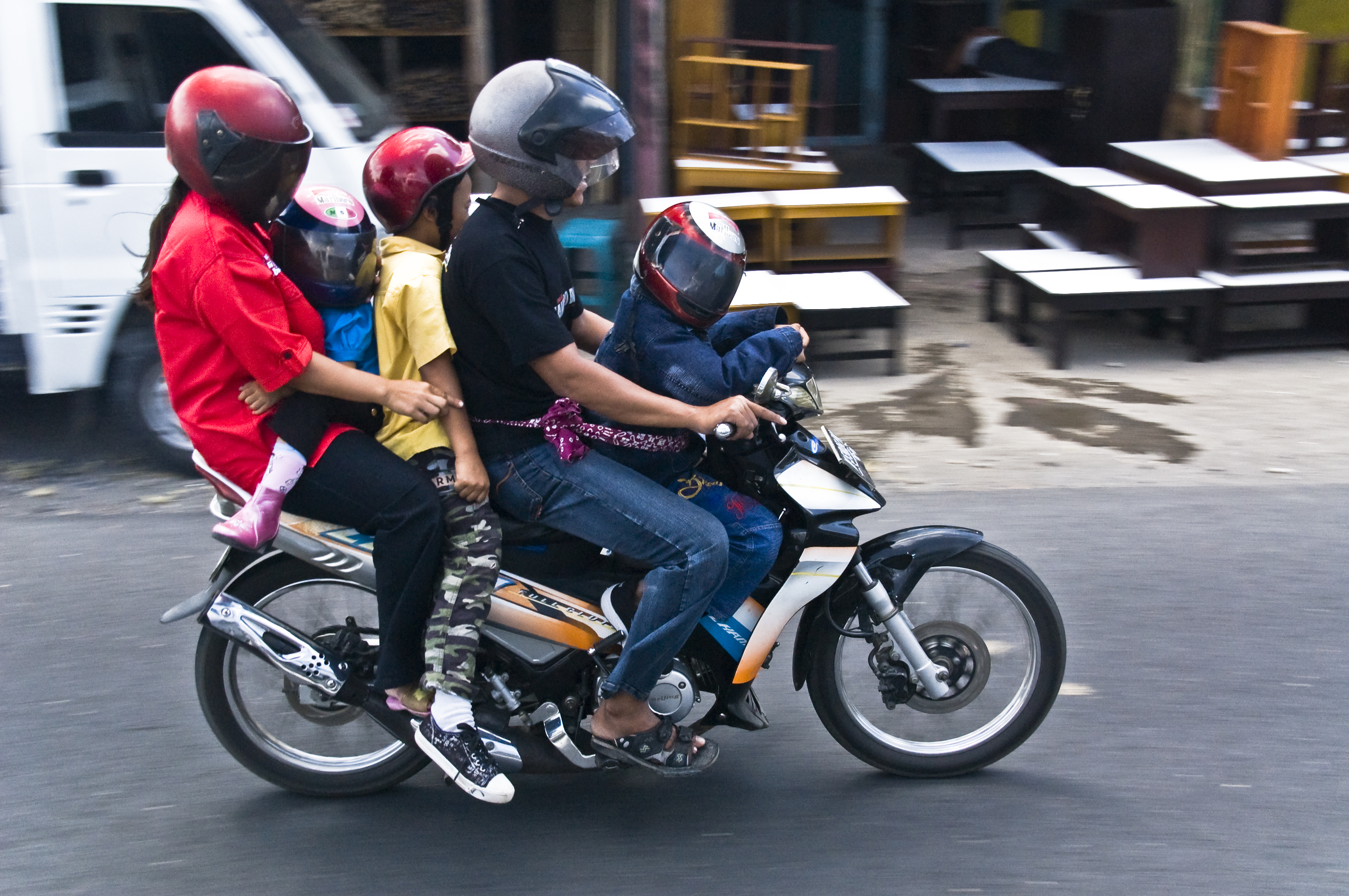 5 on a motorcycle